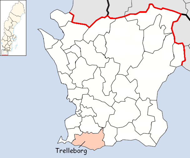 Trelleborg Municipality in Scania, Sweden Designed by me. Mere outlines are a PD source from